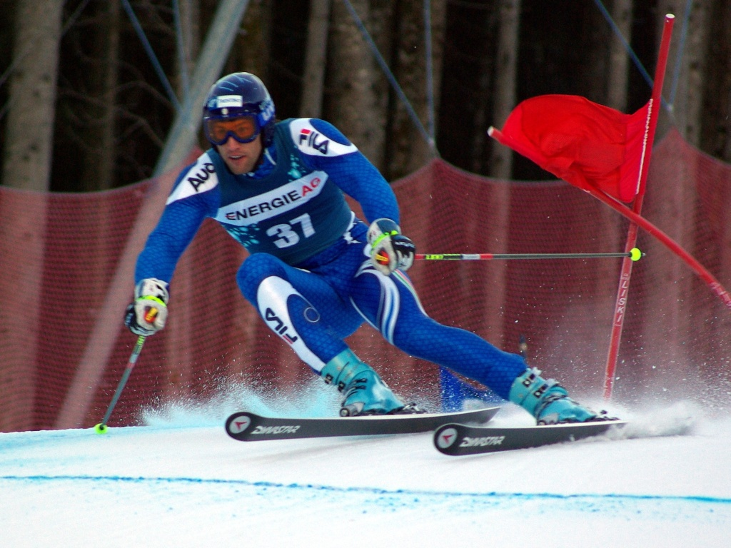 Italian alpine skier Mirko Deflorian during the European Cup Giant Slalom in Hinterstoder, Austria on January 11, 2008.